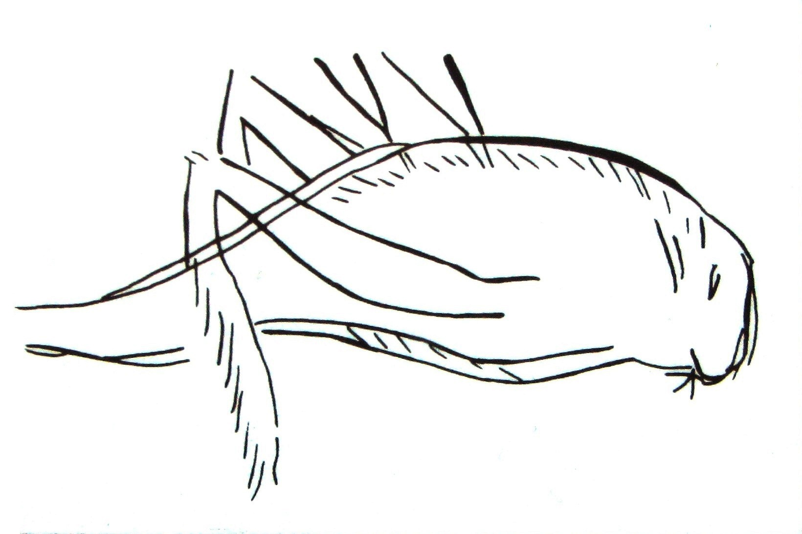 Grasshopper, engraving from the Cave of Enlène near Montesquieu-Avantès, Ariège. Enlène and les Trois-Frères communicate through a narrow gallery that was intensely used in Magdalenian times, deep inside both caves. Many artefacts that were attributed to the Trois-Frères cave actually come from Enlène, such as this here piece. See Enrico Pozzi, Les Magdaléniens: art, civilisations, modes de vie, environnements, p. 177.